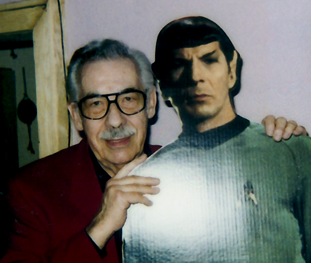 German actor and dub voice Herbert Weicker (german voice of Spock) on the Star Trek Convention 1994 in Mannheim, Germany